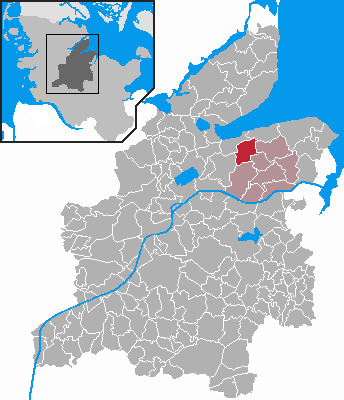 Locator maps of municipalities in Schleswig-Holstein - District Rendsburg-Eckernförde